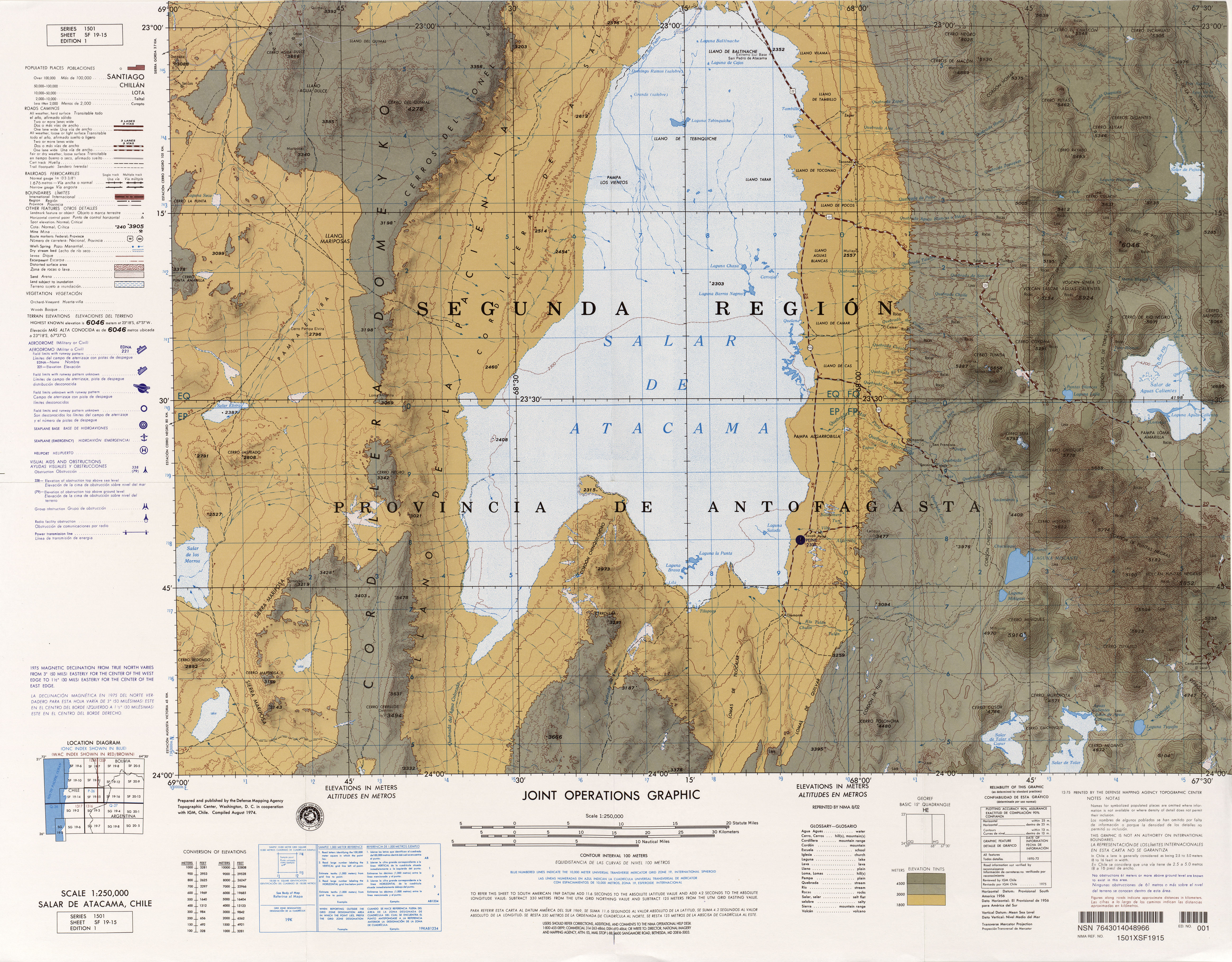 Salar de Atacama, Cordillera de Domeyko. Printed in 2002.